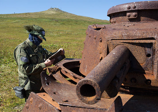 A Japanese Type 97 Chi-Ha medium tank from the Second World War was found on Shumshu Island during a Russian Expedition in 2015. It was later removed to be refurbished and put on display.